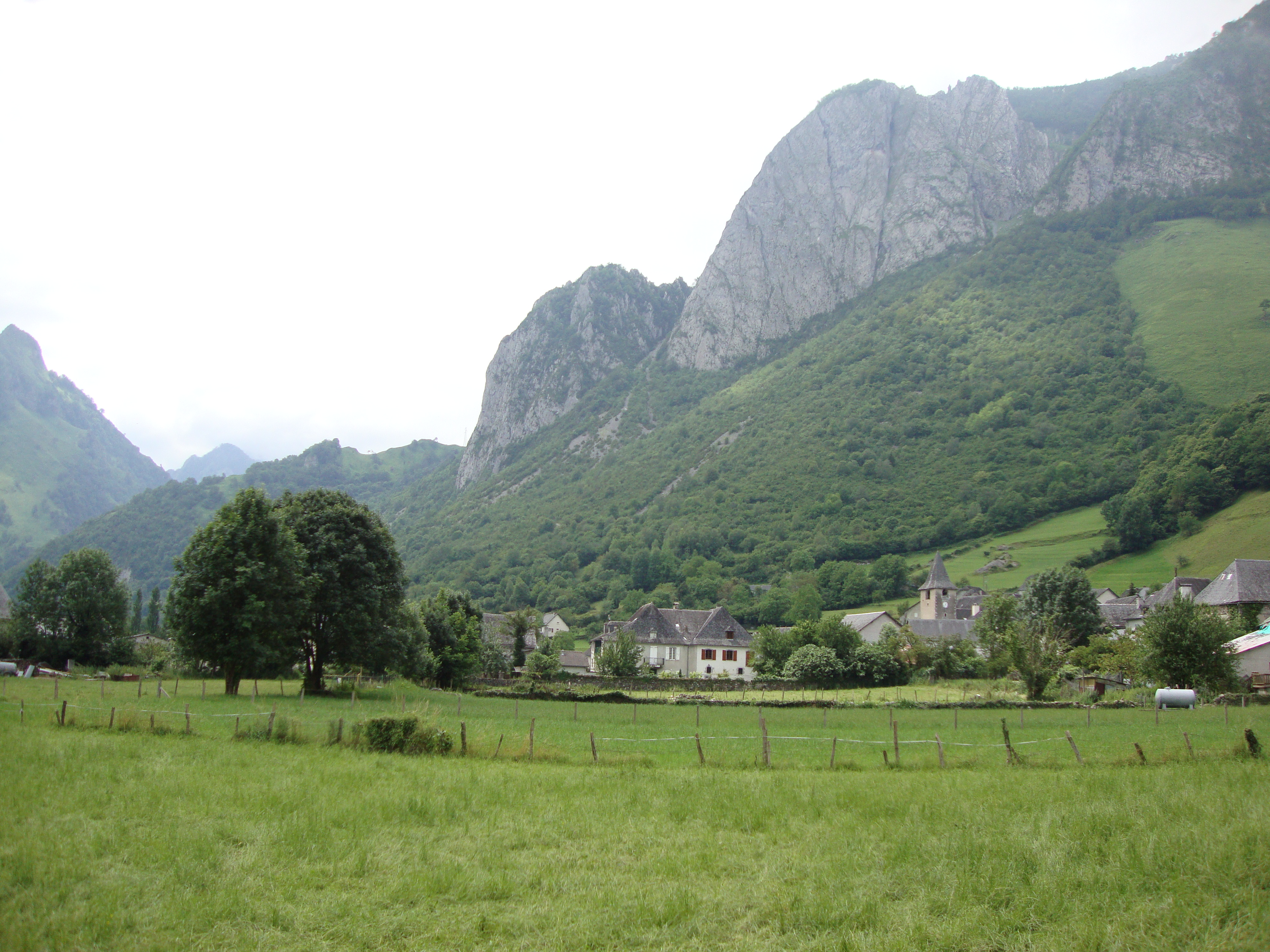 Lées (Lées-Athas, Pyr-Atl, Fr) a village view.